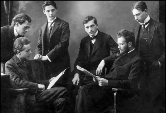 Waldbauer string quartet (Jenő Kerpely, Imre Waldbauer, Antal Molnár and János Temesváry, all the four standing) with their composers of choice, Béla Bartok (sitting, left) and Zoltán Kodály (sitting, right)